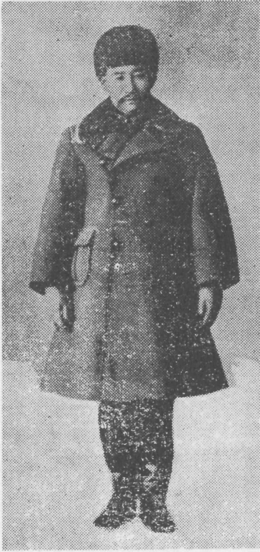 Ma Zhanshan (1885 - 1950) photographed around November 1931